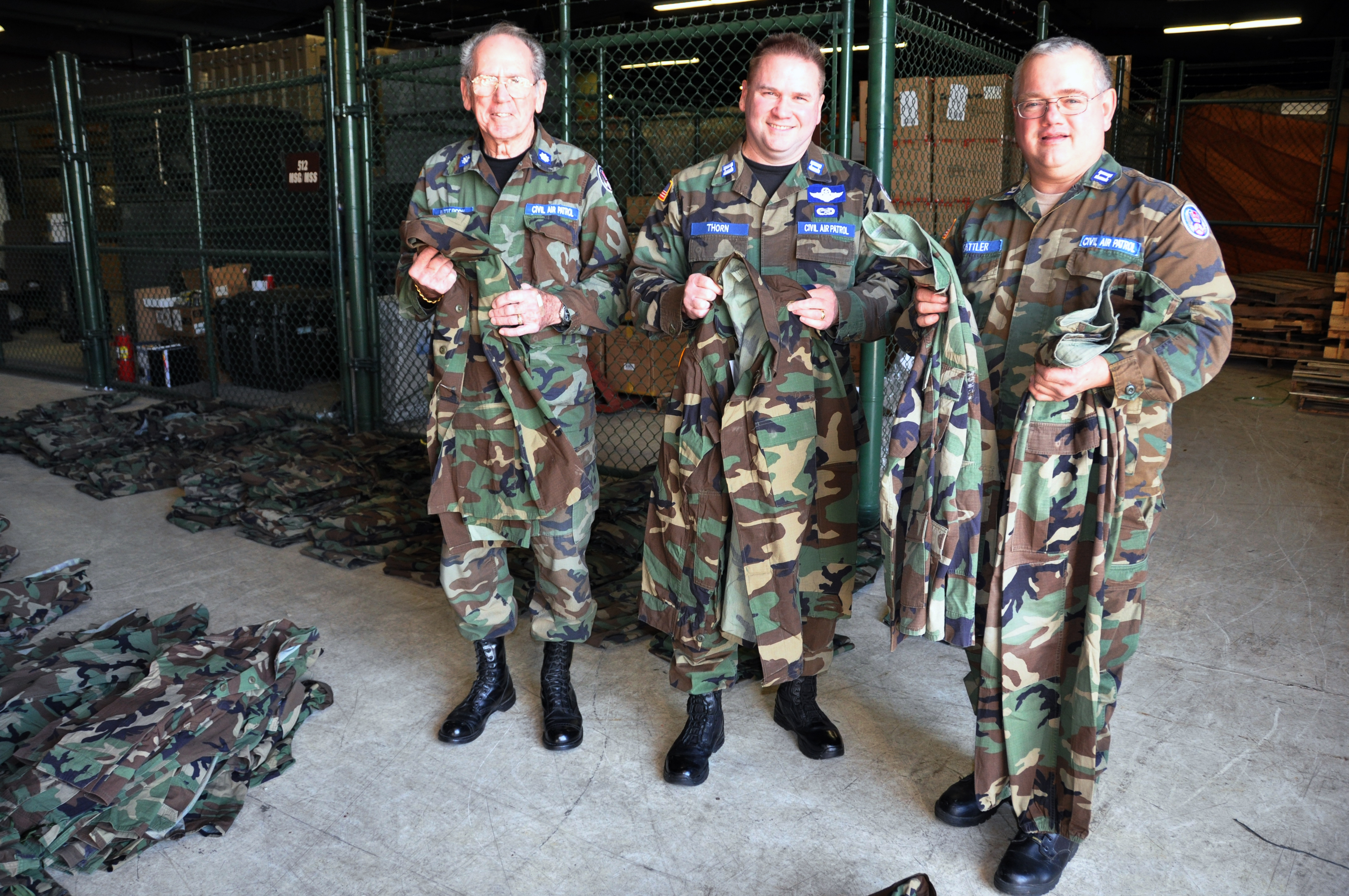 From left to right are Civil Air Patrol members Lt. Col. Jerry Patterson, Capt. Bob Thorn and Capt. Frank Sattler, who are holding donated battle dress uniforms from the 512th Airlift Wing at Dover Air Force Base, Del., Jan. 8, 2012. The Reserve unit conducted a non-unit funded BDU drive for the 904th Composite Squadron, Quakertown, Pa., and Delaware Air National Guard Cadet Squadron, New Castle, Del., because CAP units are still authorized to wear BDUs after the regular Air Force phase-out date of Nov. 1, 2011. (U.S. Air Force photo by Master Sgt. Veronica Aceveda)